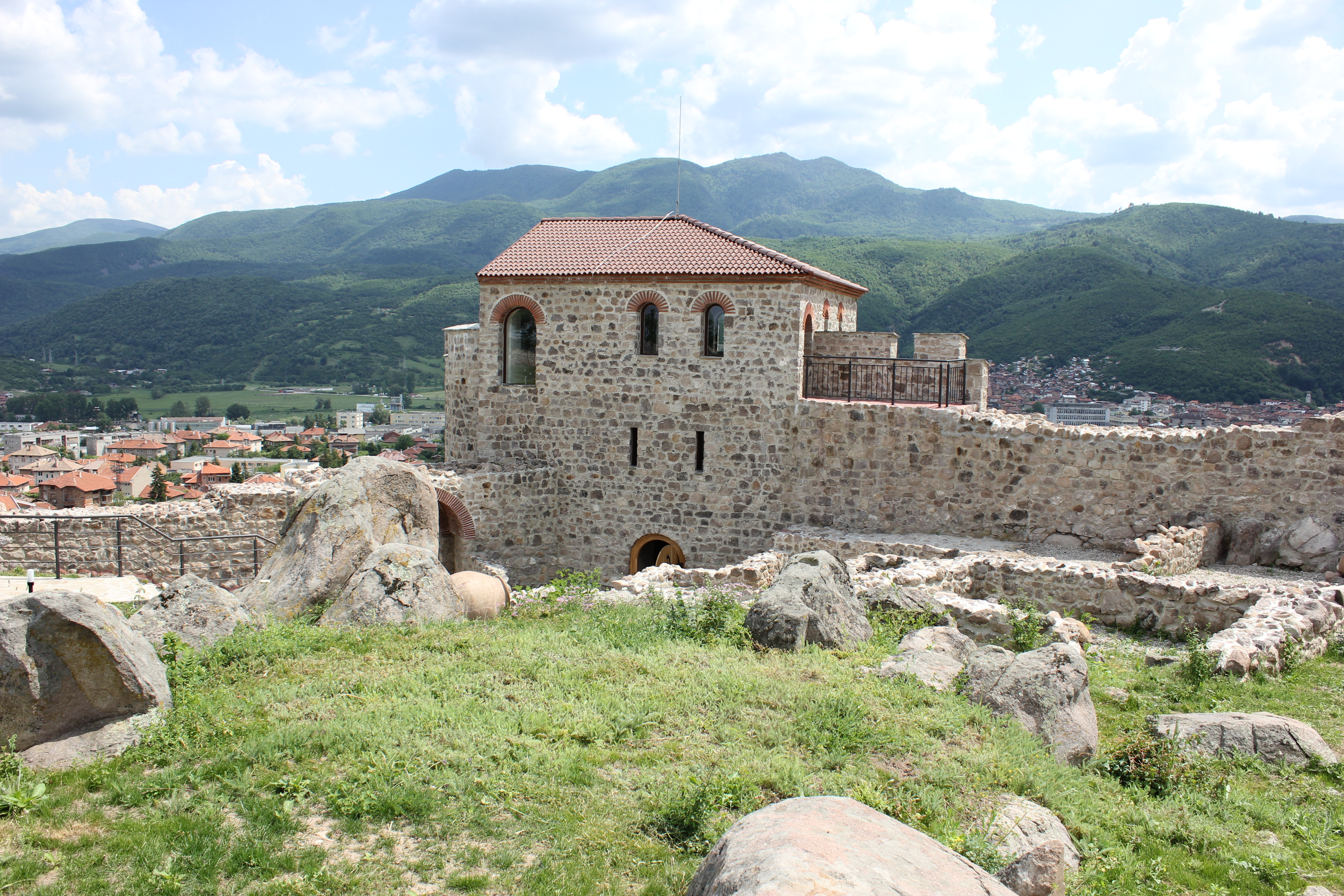 Southeast church-tower (photographed from the north) from Fortress Peristera, Peshtera, Bulgaria.